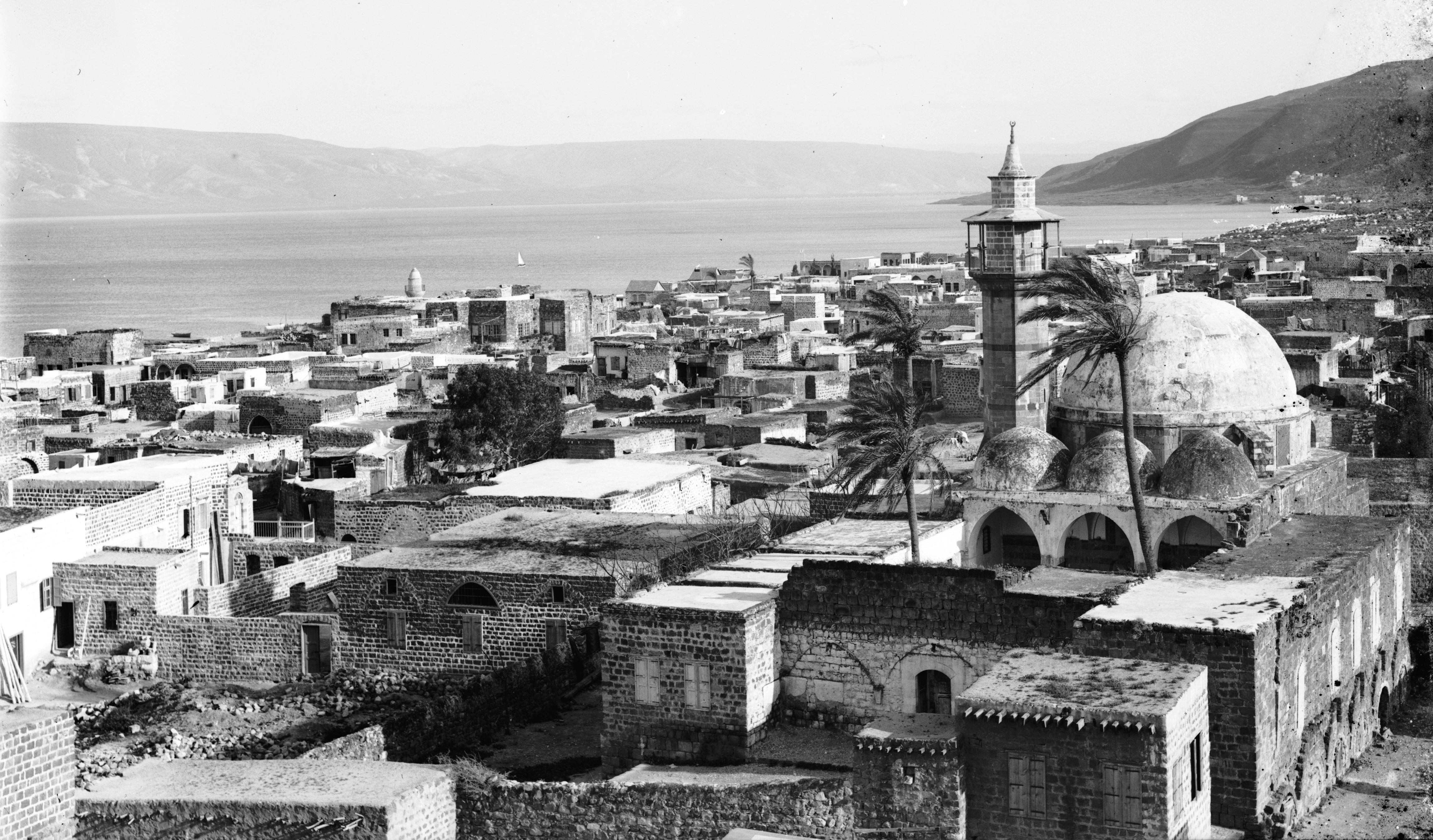 Northern views. Near view of Tiberias Original caption: “Tiberias and Sea of Galilee.”